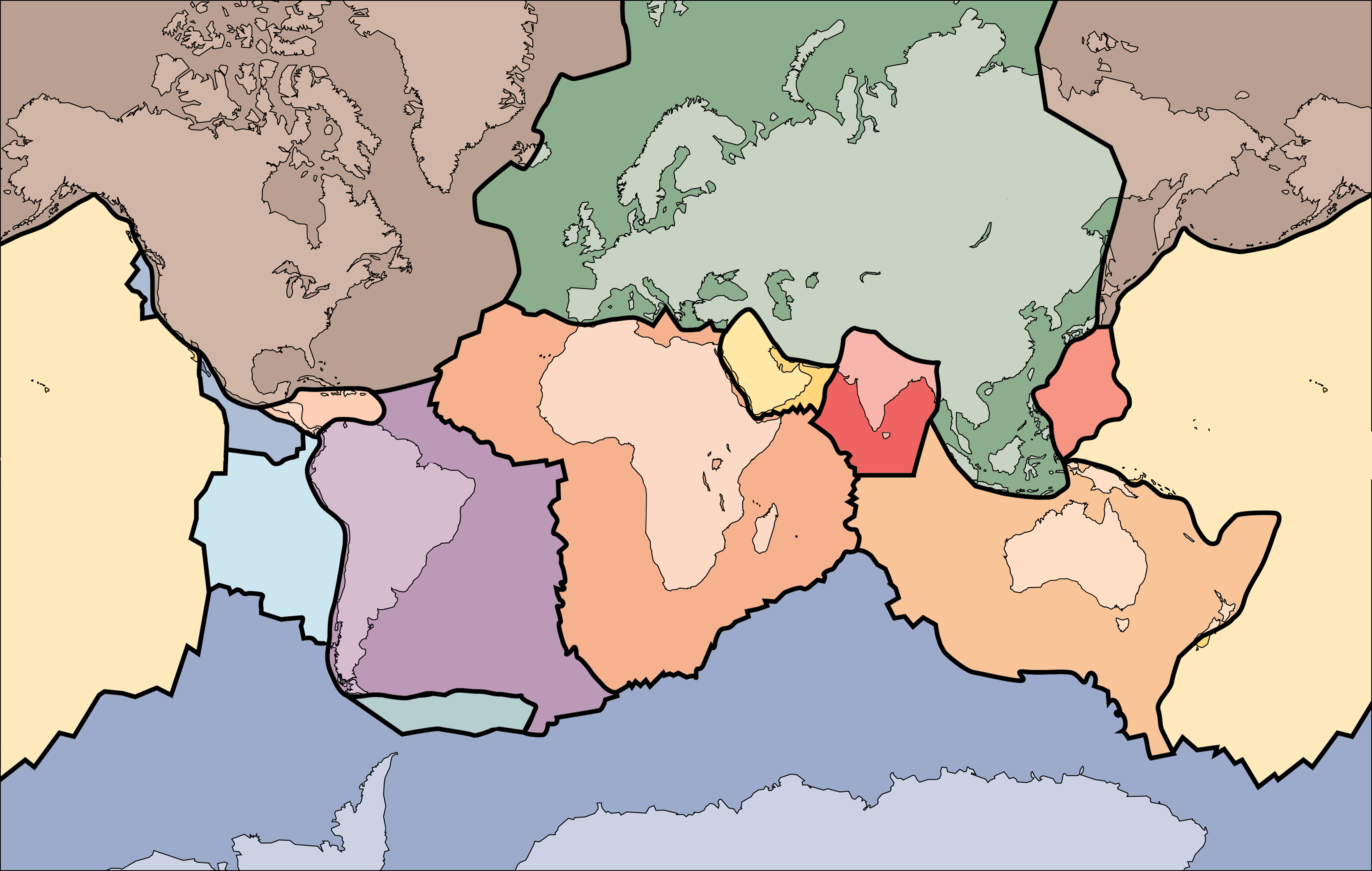 Tectonic plates of the Earth. From en.wikipedia, retrieved from USGS site